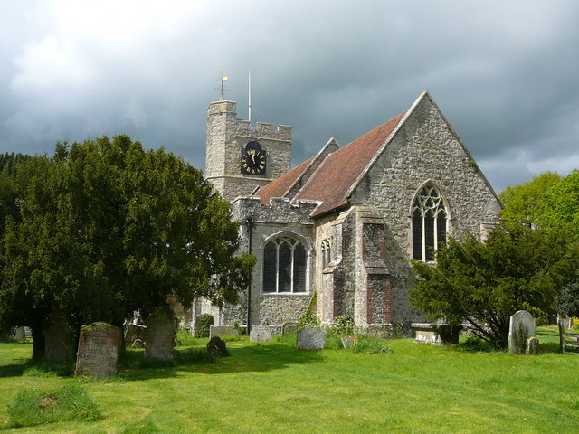 Parish church at Bethersden